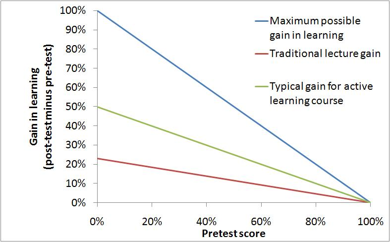 A schematic of the "Hake plot."